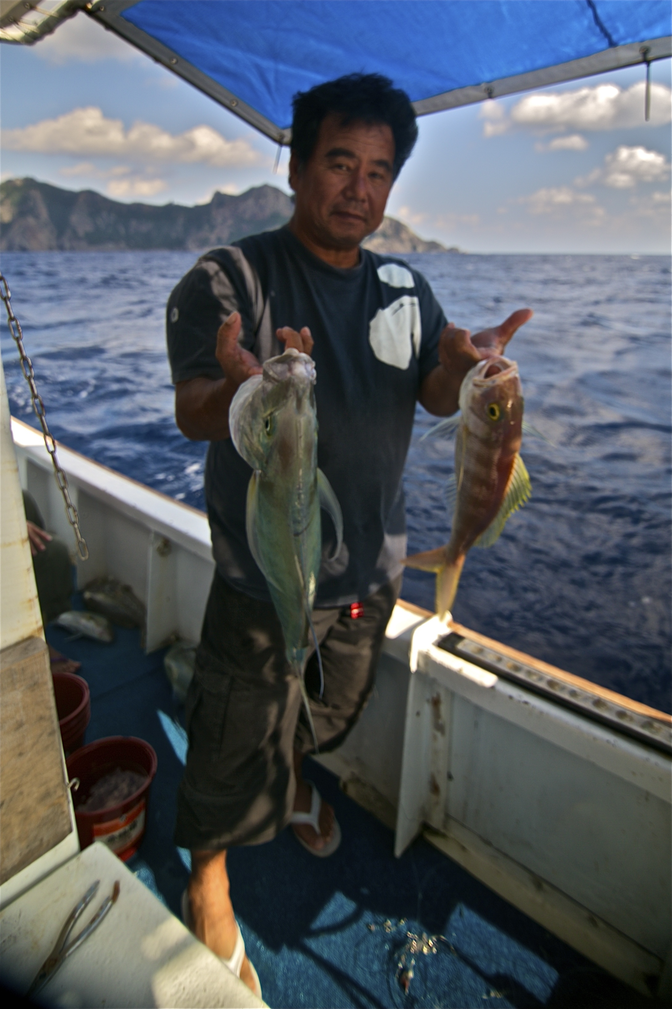 Japanese fisherman Naka Zensho shows off some of his catch just off the main island in the Senkaku/Diaoyu chain. The waters around the disputed islands are known as being a rich fishing grounds. In 1969, a UN survey also discovered the possibility the area may also be rich in oil and natural gas.